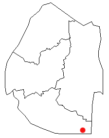 Lavumisa, Eswatini Location Map; created with the GIMP. Made by User:Acntx